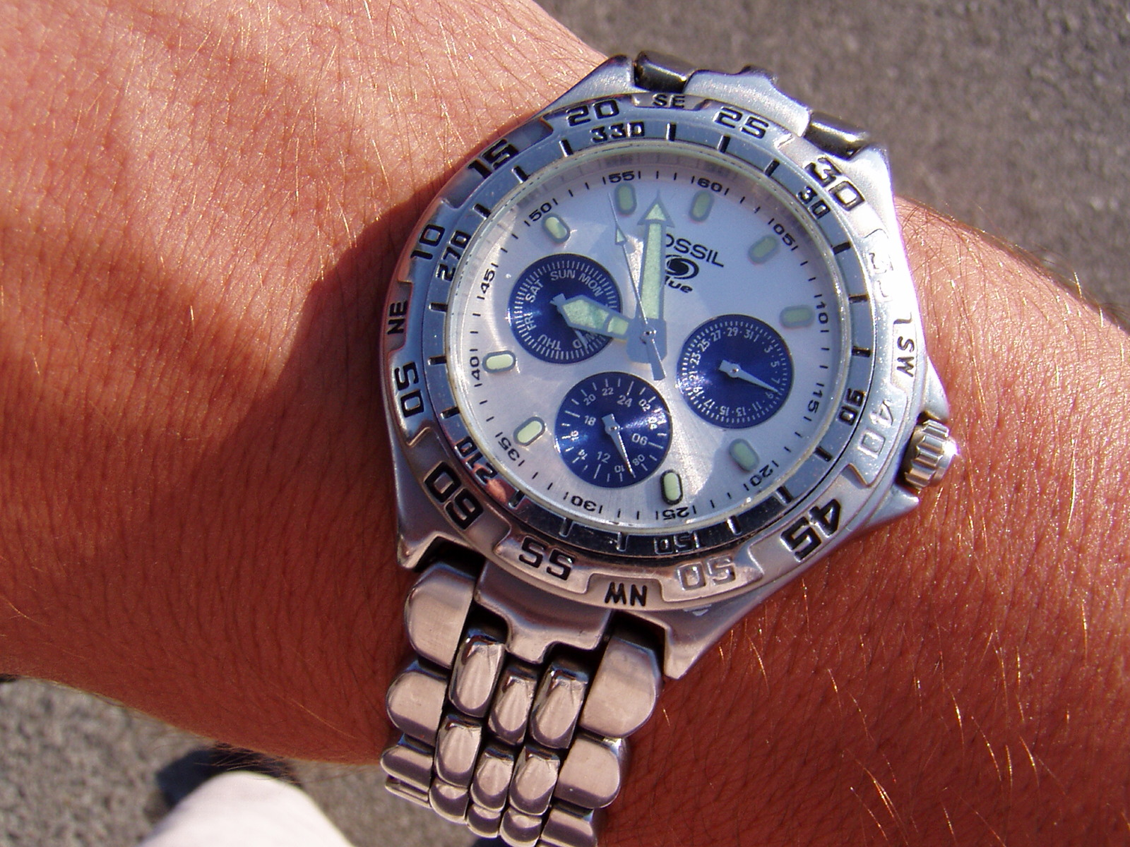 My Fossil watch and it's beuty